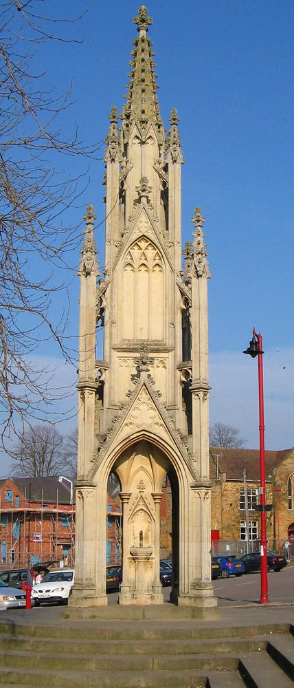 The Burton Memorial in Daventry town centre. Photo by G-Man April 2005